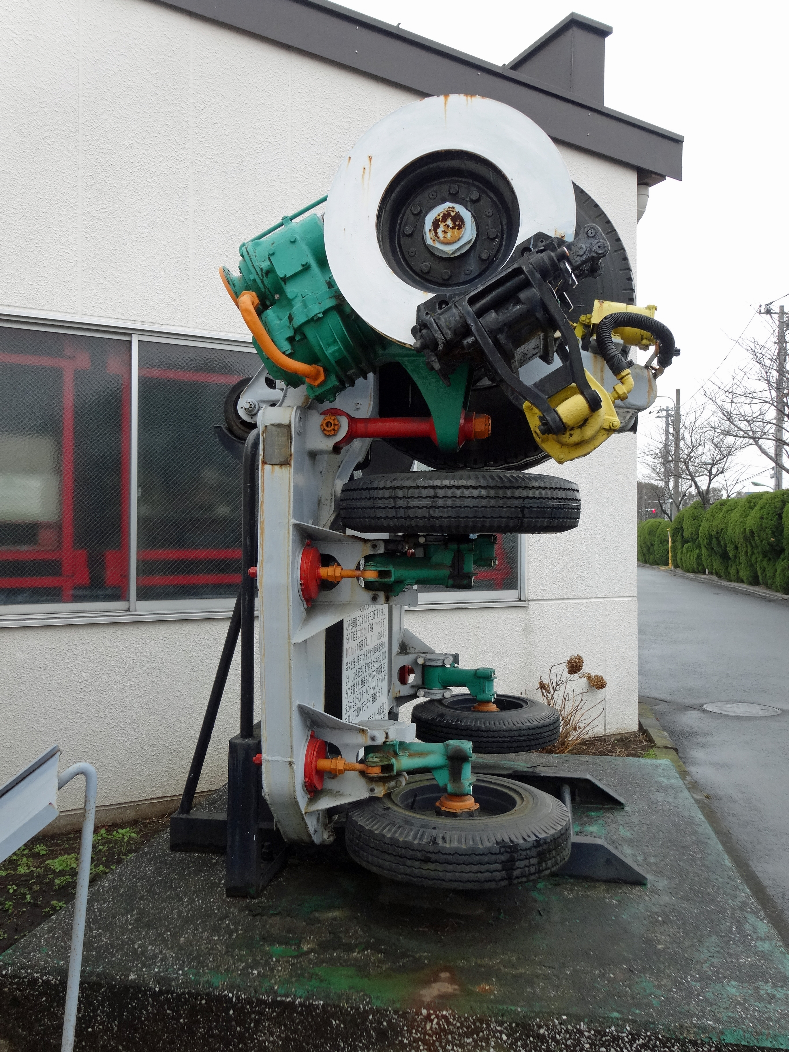 The first bogie truck of Tokyo Monorail preserved at the Showajima Depot